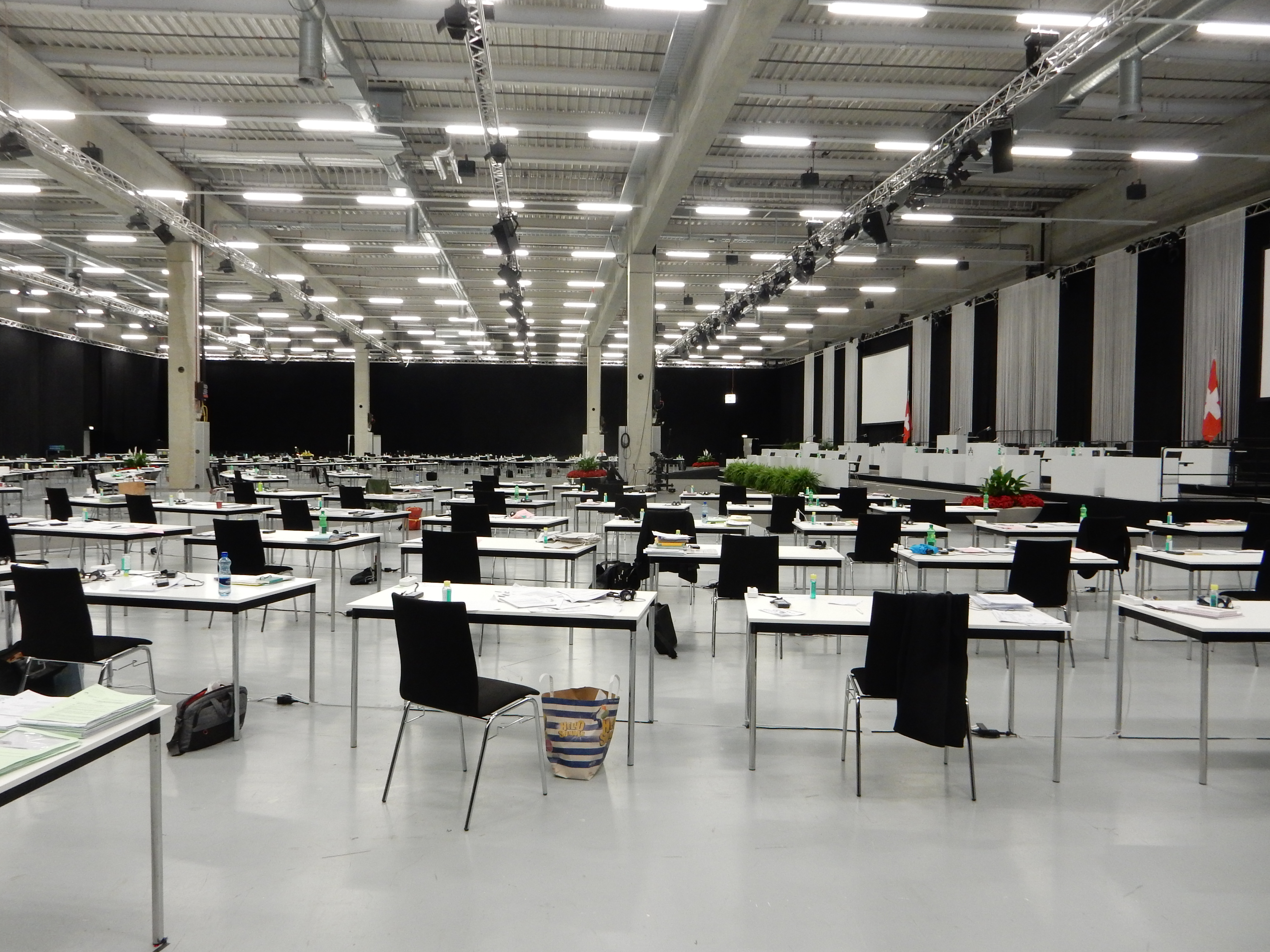 Sessions of the Swiss Federal Assembly during the COVID-19 pandemic